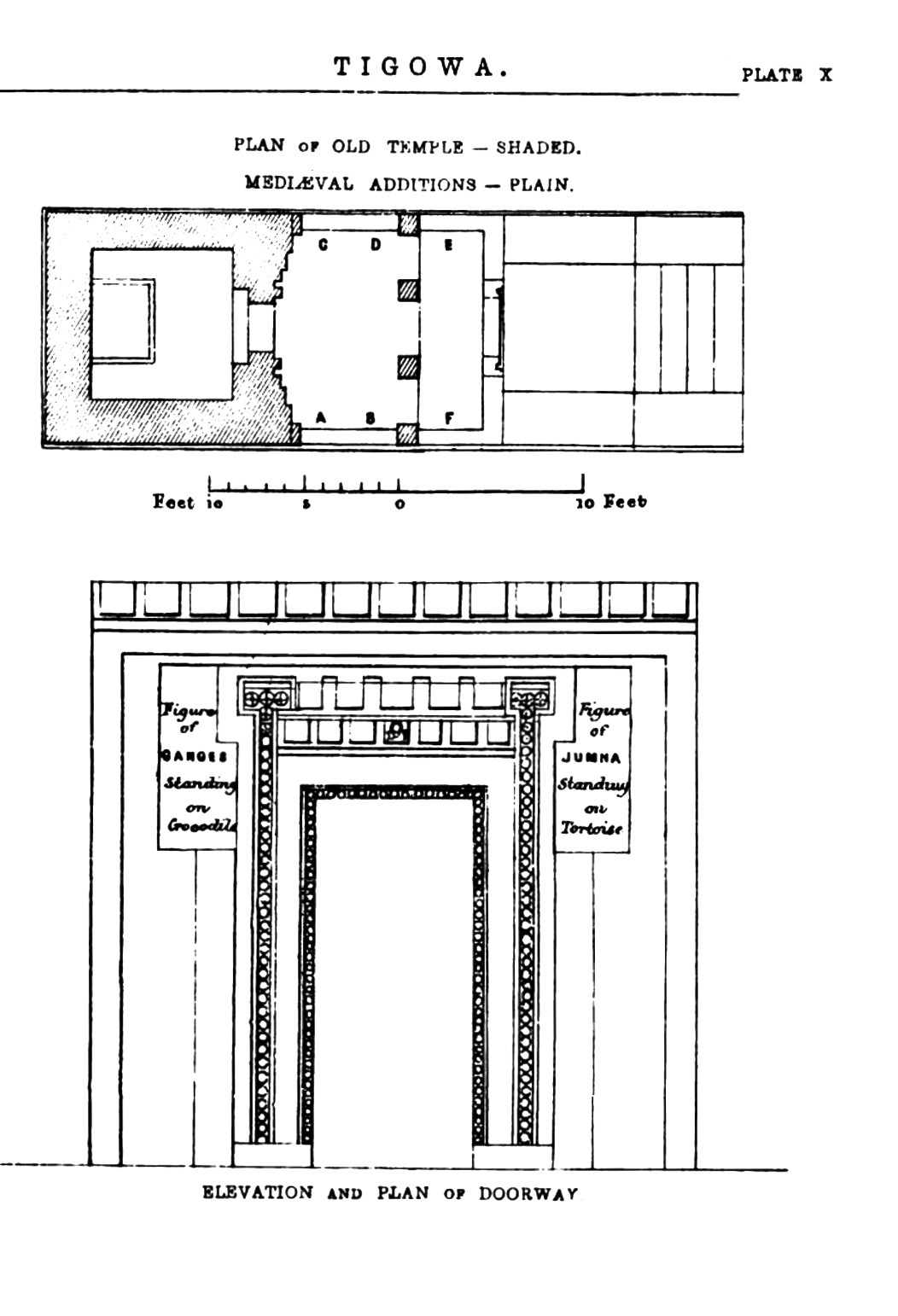 A square plan temple built about 400-425 CE, Gupta era. Alexander Cunningham proposed that the shaded part is ancient, unshaded part was built a bit later. His report is ASI Volume 9. Plate X of the source, published in 1879